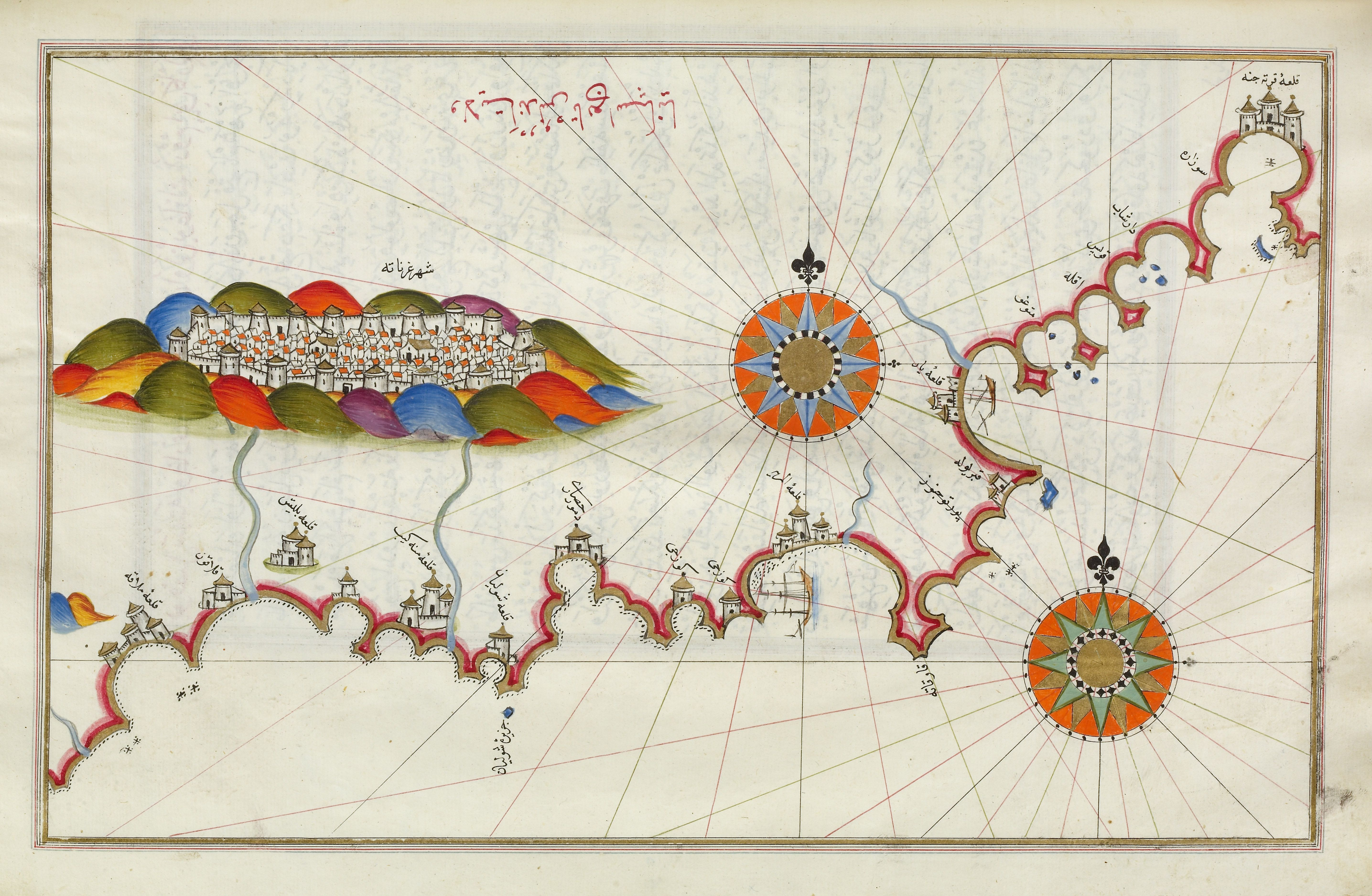 Map of the coasts of the old Kingdom of Granada (nowadays Spanish provinces of Málaga, Granada and Almería) in a manuscript of Piri Reis's nautical atlas entitled Kitab-i Bahriye. 16th century.